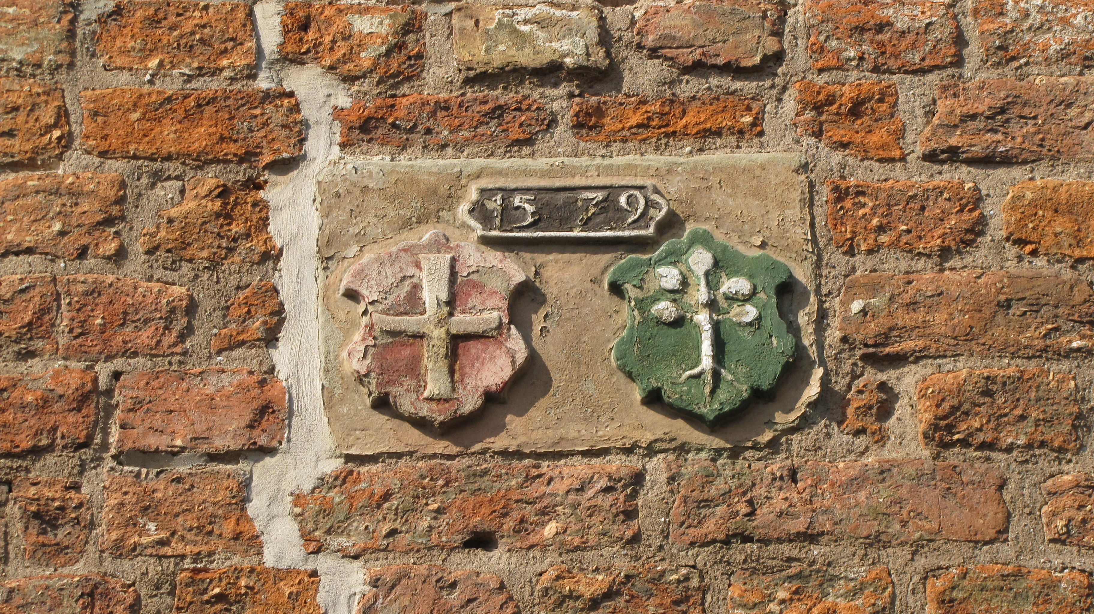 Coat of Arms of the Lübeck Cathedral Chapter at preachers' house in Hartengrube 6-8, Lübeck